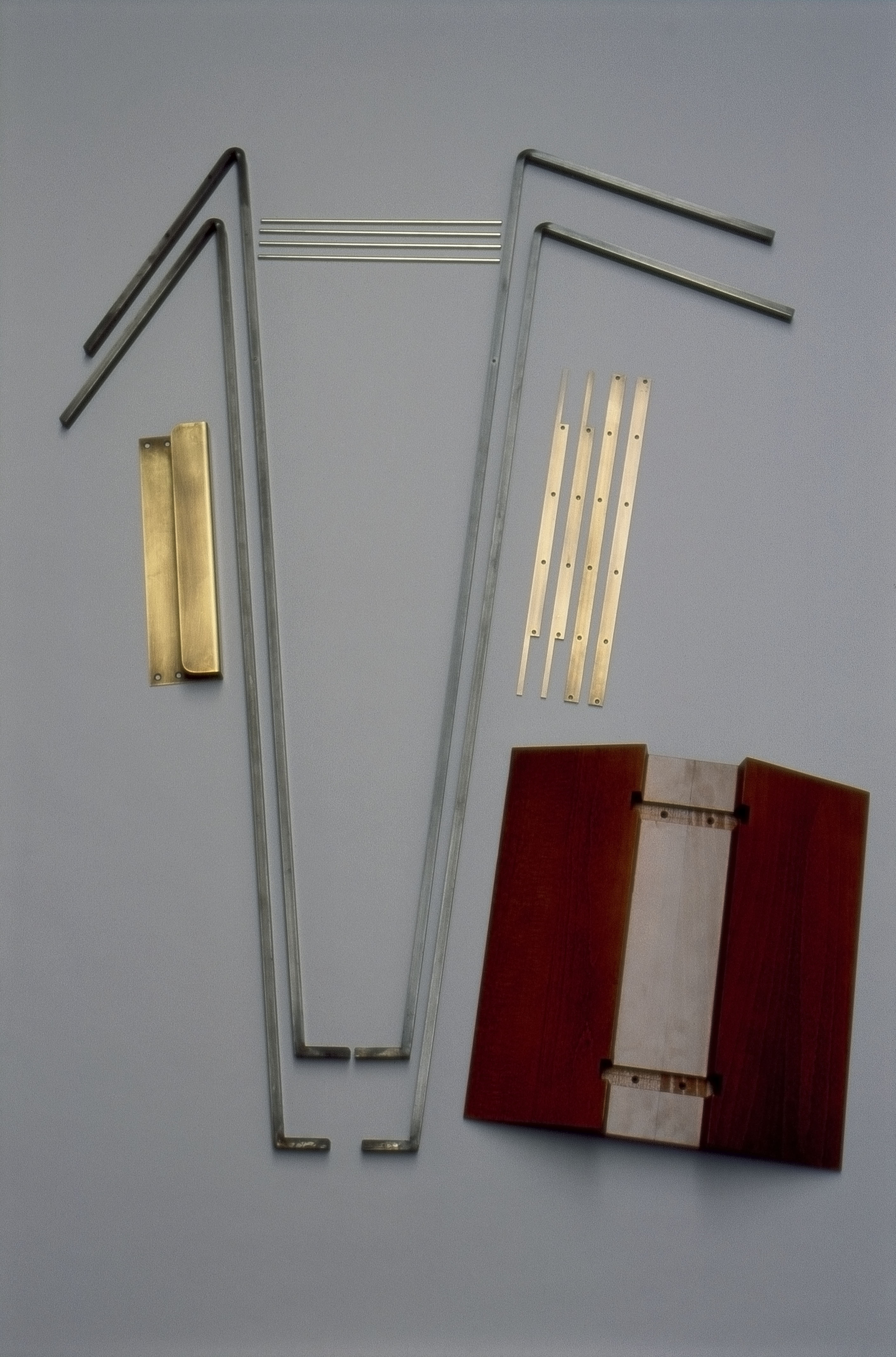 Information point - teaching aids, braille, software – for each painting at the Palazzo Chiericati Museum, Vicenza